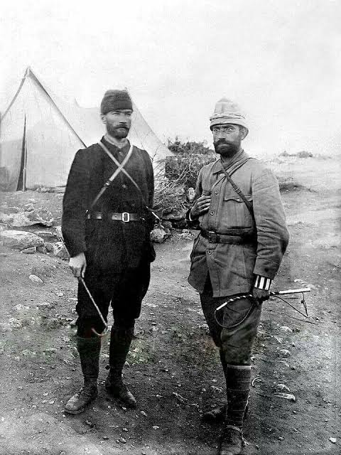 Kemal Atatürk (or alternatively written as Kamâl Atatürk, Mustafa Kemal Pasha until 1934, commonly referred to as Mustafa Kemal Atatürk; 1881 – 10 November 1938) was a Turkish field marshal, revolutionary statesman, author, and the founding father of the Republic of Turkey, serving as its first President from 1923 until his death in 1938. He undertook sweeping progressive reforms, which modernized Turkey into a secular, industrial nation. Ideologically a secularist and nationalist, his policies and theories became known as Kemalism. Due to his military and political accomplishments, Atatürk is regarded as one of the most important political leaders of the 20th century.